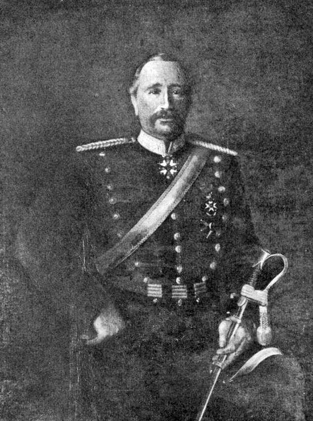 John Raoul Hamilton (1834–1904). Paraduniform, rödbrun fond.